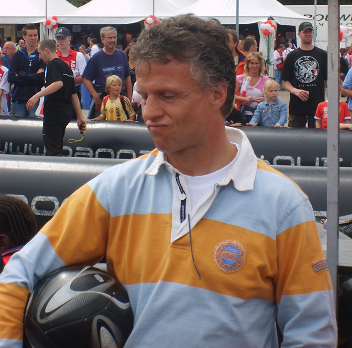 Jan Lammers at an Ajax-related-event.